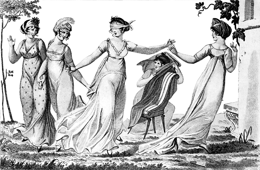 Women playing a game of blind man's bluff, drawn in 1803.